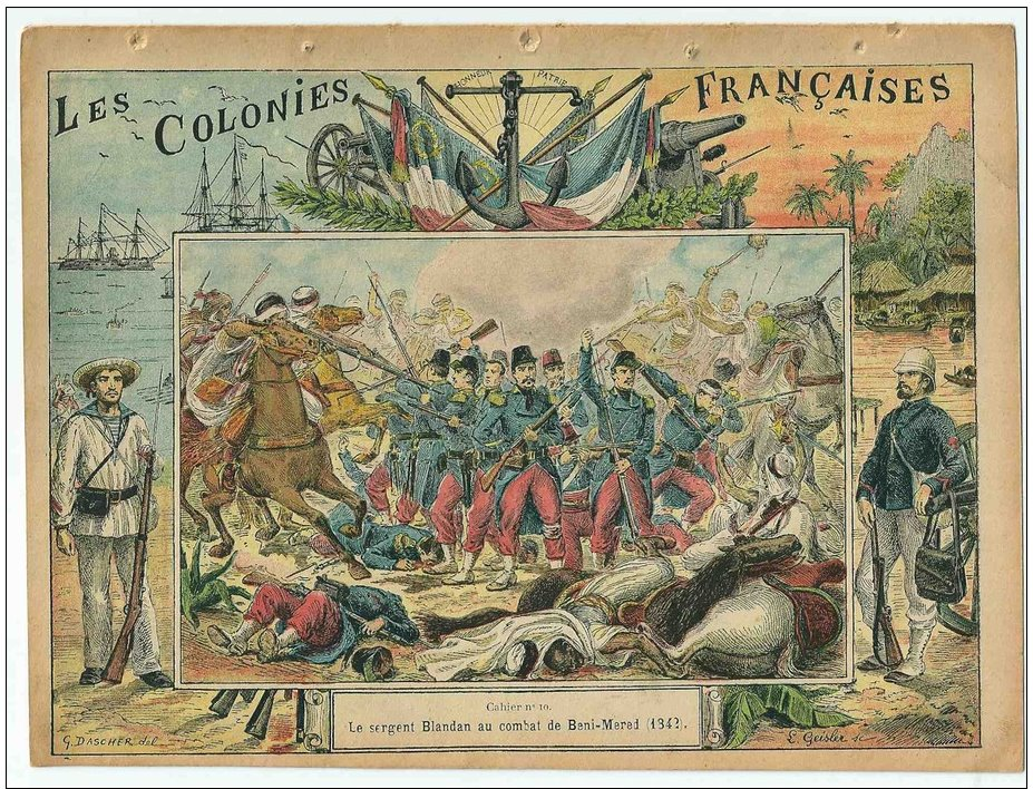 From a collection of French books guard Colonies dated 1894. Sergent Blandan (9 February 1819 - 12 April 1842)[1] was a French soldier, Jean Pierre Hippolyte Blandan, known for his historic resistance on the battlefield at Boufarik in Algeria